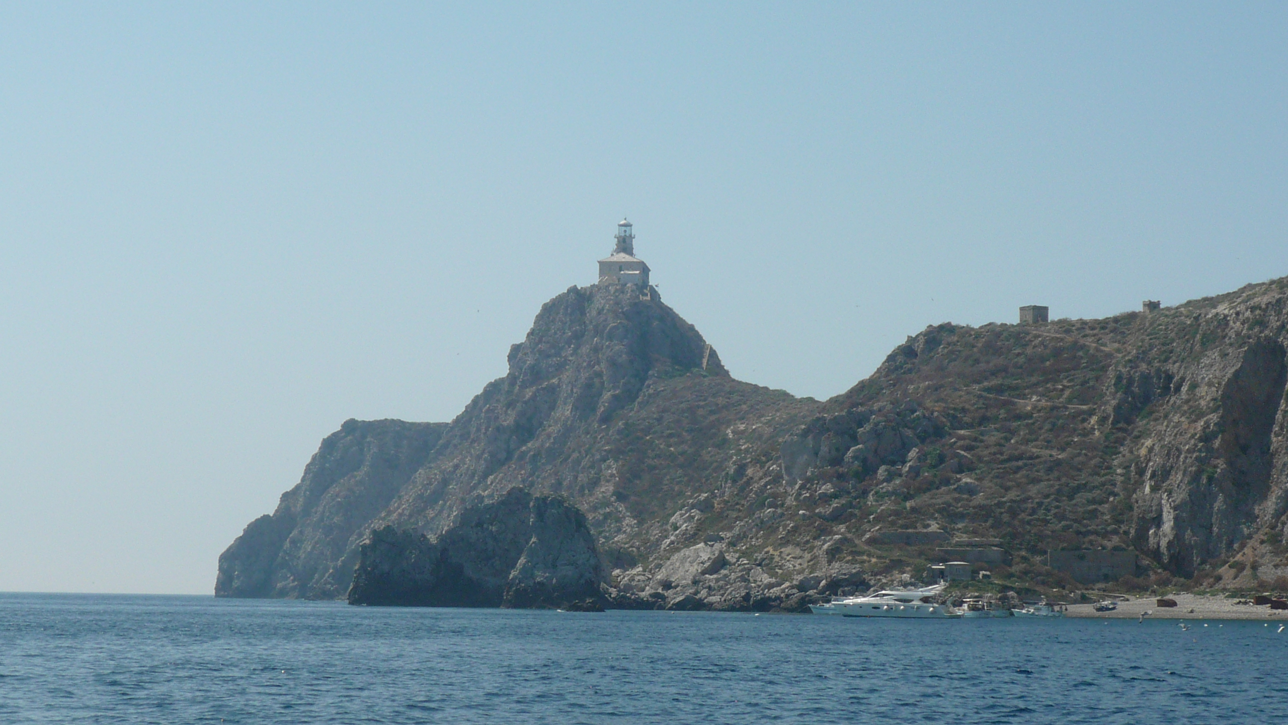 The lighthouse on top of Palagruža.